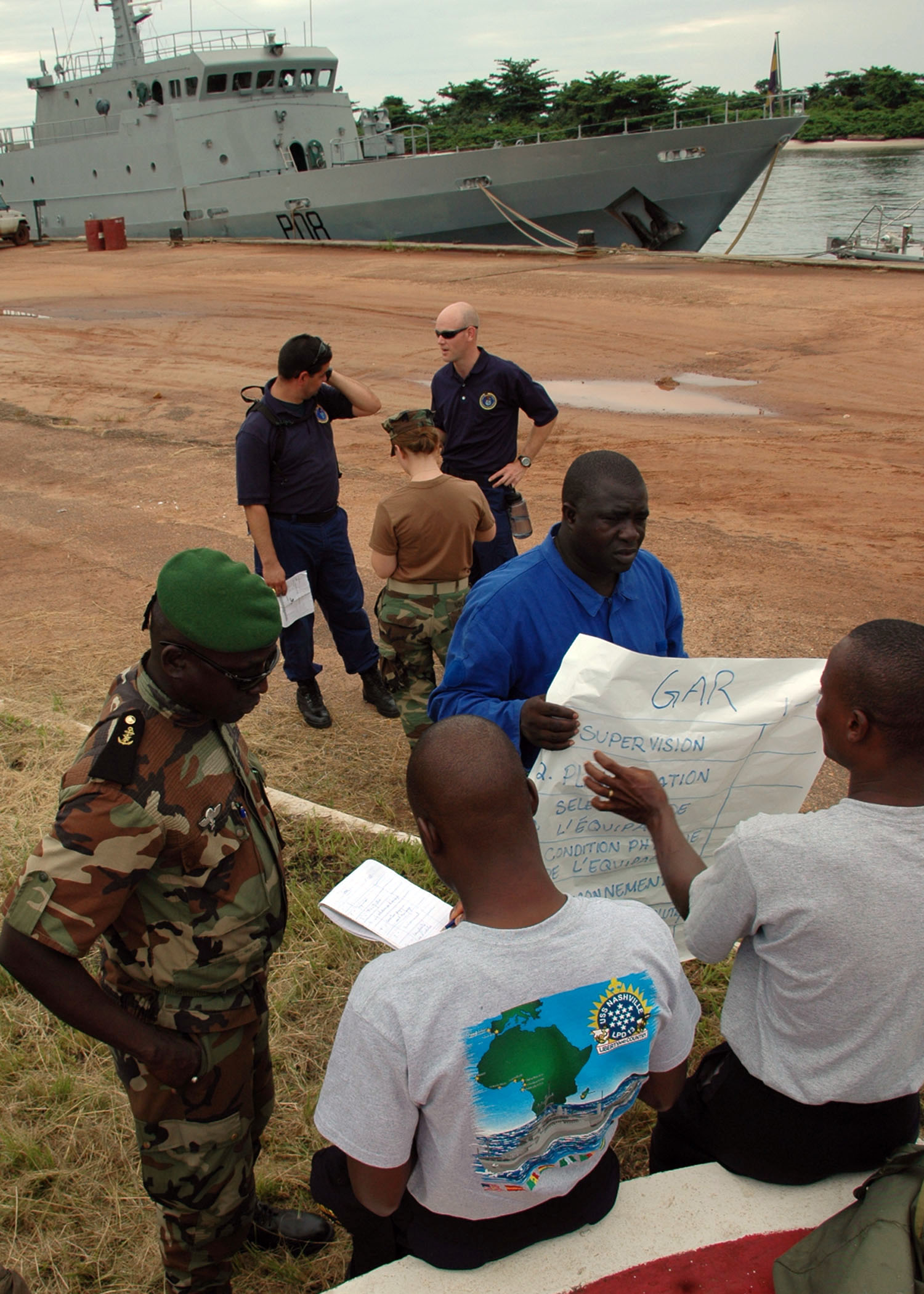 PORT GENTIL, Gabon (April 27, 2009) Gabonese sailors, front, reviews visit, board, search and seizure procedures during an Africa Partnership Station Nashville workshop with U.S. Coast Guard members. Africa Partnership Station is a multinational initiative developed by Commander, U.S. Naval Forces Europe and Commander, U.S. Naval Forces Africa to work with U.S. and international partners to enhance maritime safety and security on the African continent. (U.S. Navy photo by Mass Communication Specialist 2nd Class David Holmes/Released)